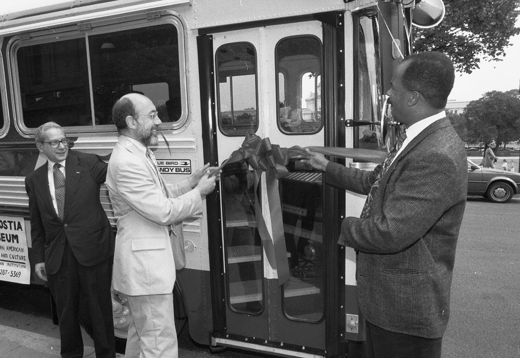 Anacostia Museum Director Steven Newsome, right, and Acting Under Secretary Alan Fern, left, hold the ribbon as Assistant Secretary for the Arts and Humanities Tom Freudenheim cuts the ribbon for the June 8, 1992 inaugural shuttle-bus ride from the Smithsonian Institution Building to the Anacostia Museum. The bus seats up to 36 people and is wheelchair accessible.